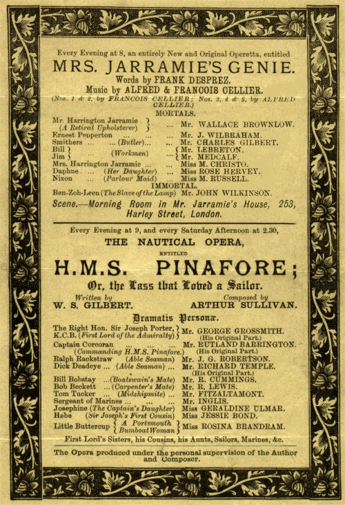 Scan of Savoy Theatre programme for Mrs. Jarramie's Genie, 1888. Public domain.